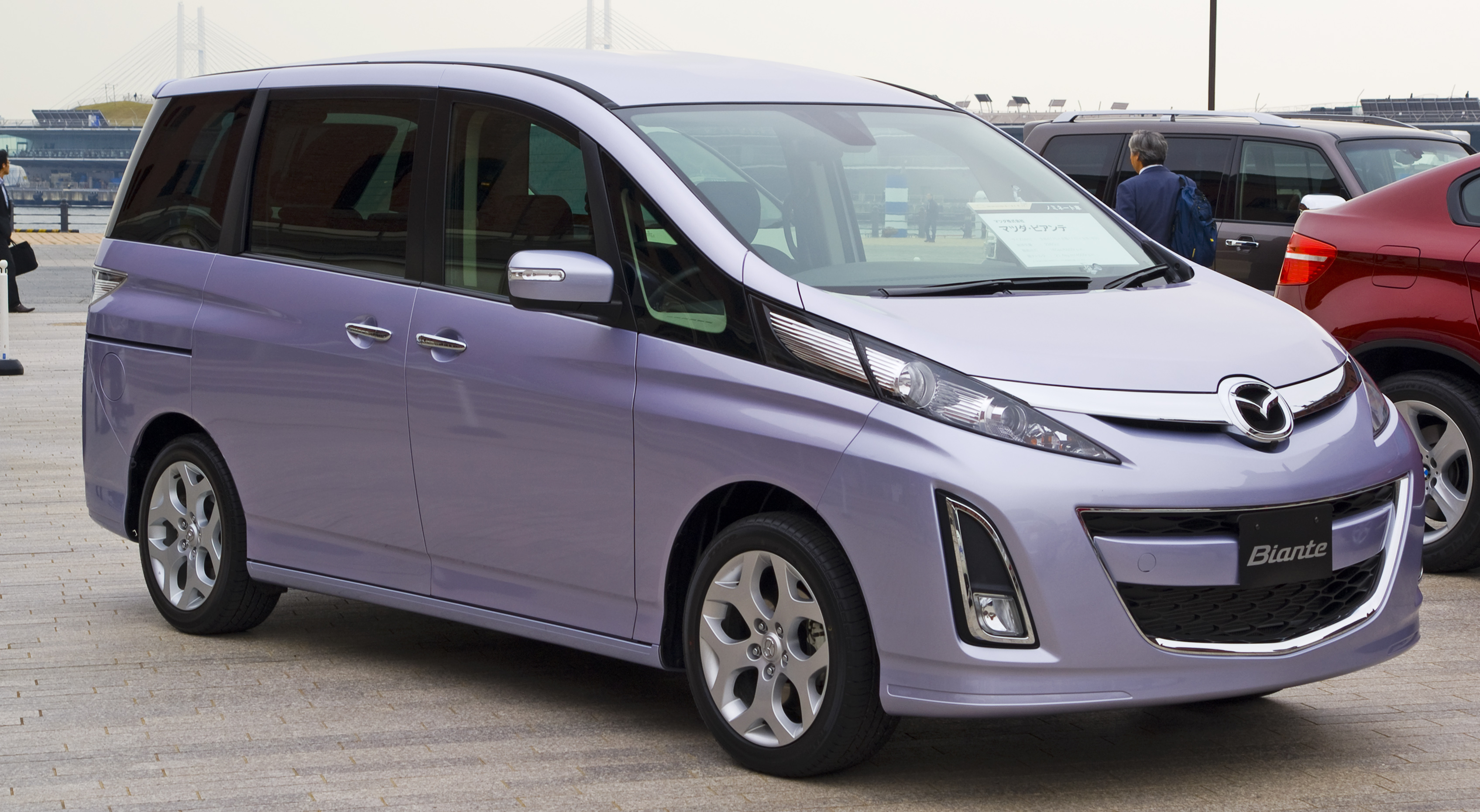 Mazda Biante photographed in Yokohama Red Brick Warehouse